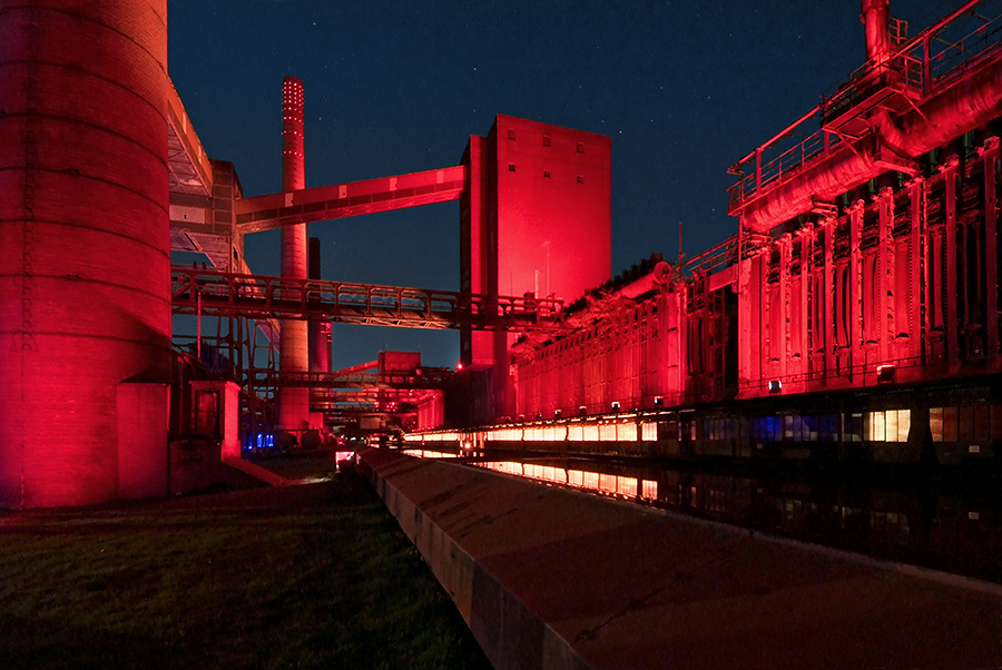 The Zollverein Coal Mine Industrial Complex (German Zeche Zollverein) is a large former industrial site in the city of Essen, North Rhine-Westphalia, Germany